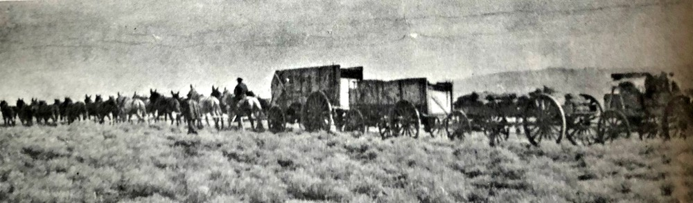 Wagon train hauling silver ore from the Little Gem mine in Tenabo to the railhead at Beowawe, 25 miles south